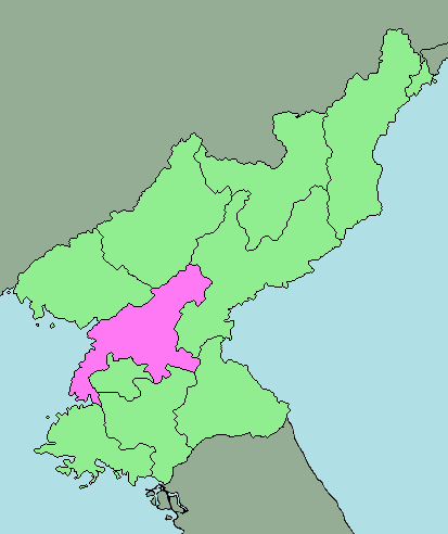 Area map of Pyongannam Province